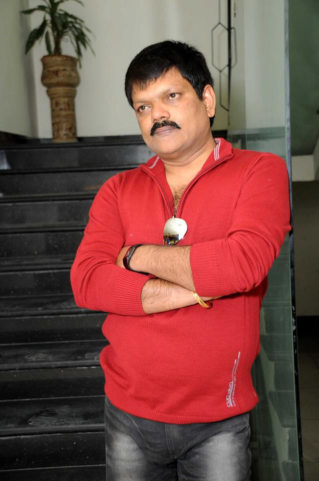 Sanjiv Jaiswal